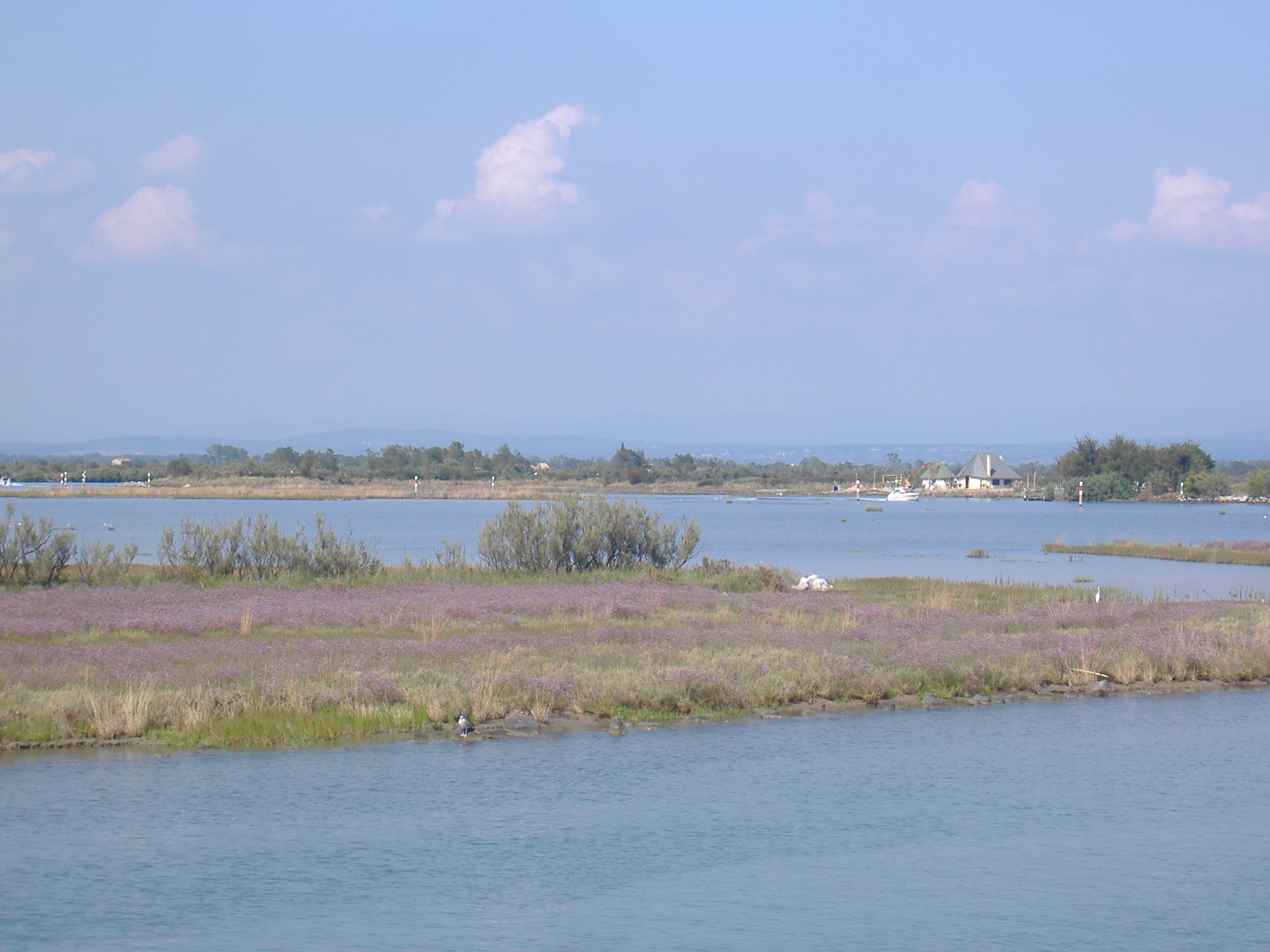 Grado Lagoon. Italy.